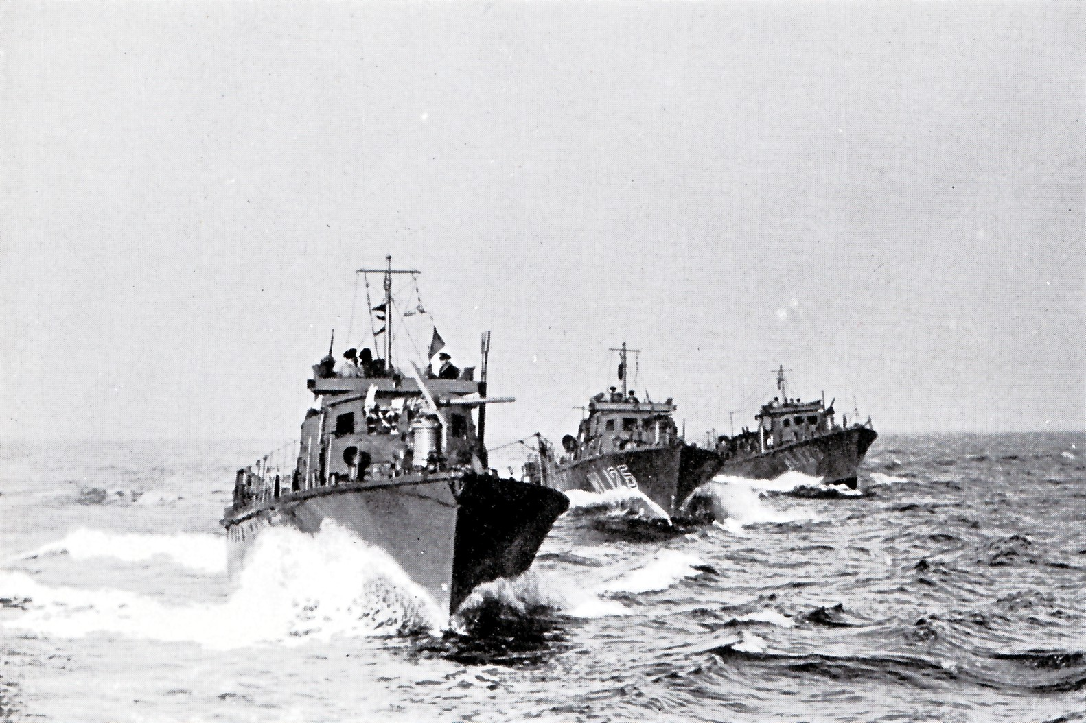 Norwegian motor launches off Dover during World War II.